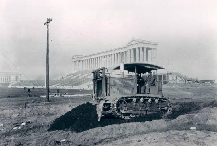 Photo of a Holt 10 ton tractor at Soldier Field, Chicago, in 1924. Since Soldier Field was not completed until the fall of 1924 and appears to still be under construction by this photo, it appears that the Holt tractor pictured was involved in the construction of the stadium. The Holt Company became part of the Caterpillar Company in 1925. The Caterpillar Company issued a series of historical photos from their old negatives in 1964, which included this one from the Holt Company.